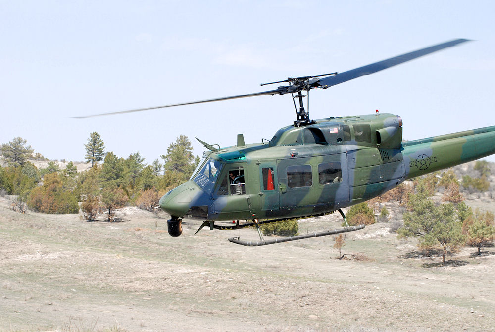 The helicopter takes off after all the security forces members were on board to conclude the third event of the Guardian Challenge April 30 at Camp Guernsey. (USAF Photo)